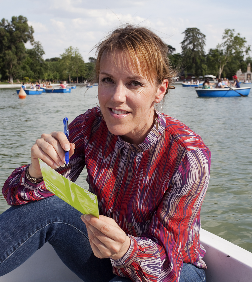 Åsa Larsson in Madrid, 2010